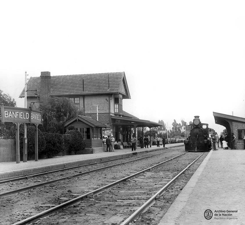 Banfield railway station in Greater Buenos Aires.